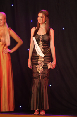 Miss Australia 2008 Katie Richardson during Miss World 08